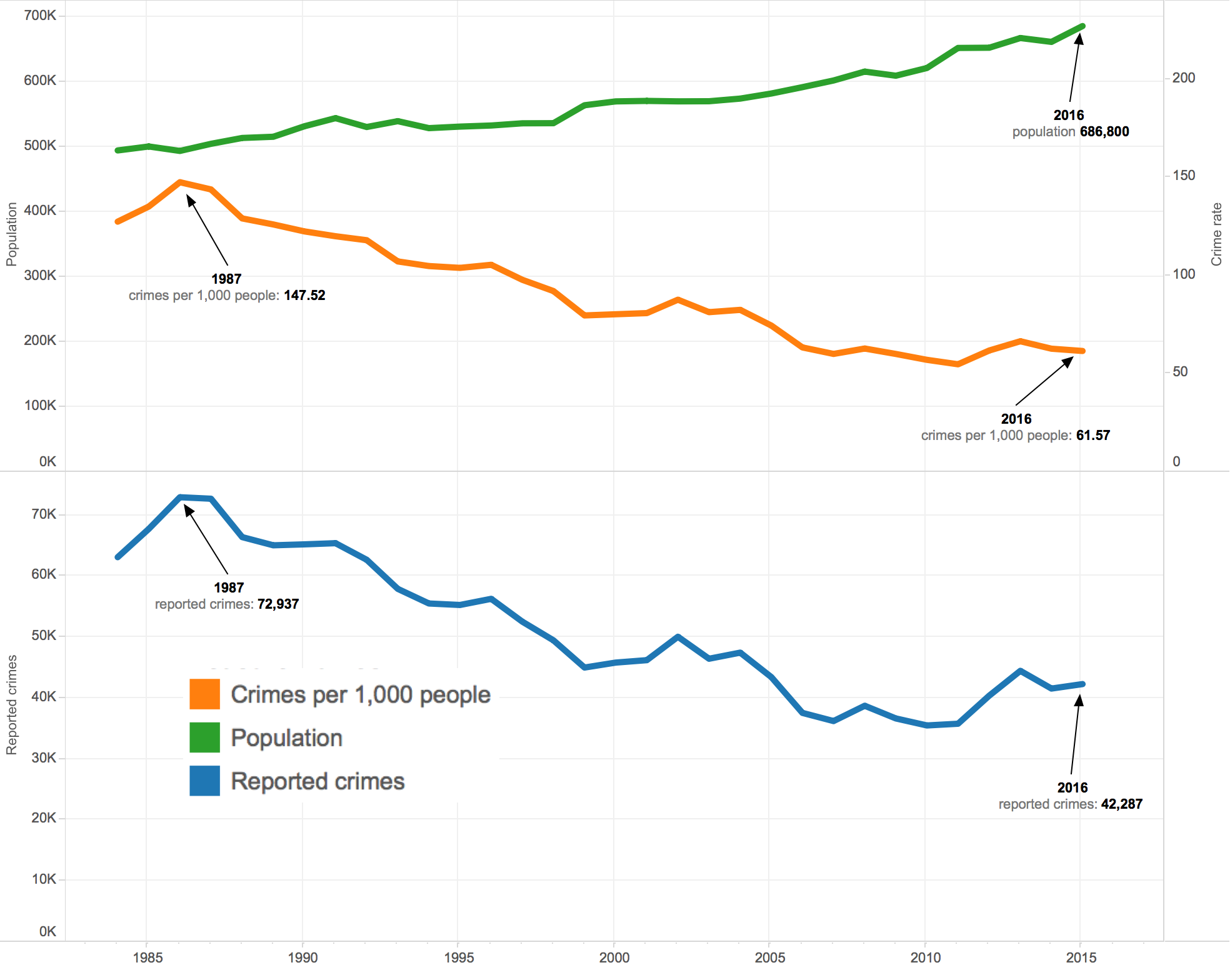 Line graph showing Seattle, Washington population, number of reported crimes, and rate of crimes per 1,000 people from 1985 through 2016. Sources: Crime - Local Level; Single Agency Reported Crime[1], U.S. Department of Justice, January 26, 2017 Crime Dashboard[2], Seattle Police Department, February 2017